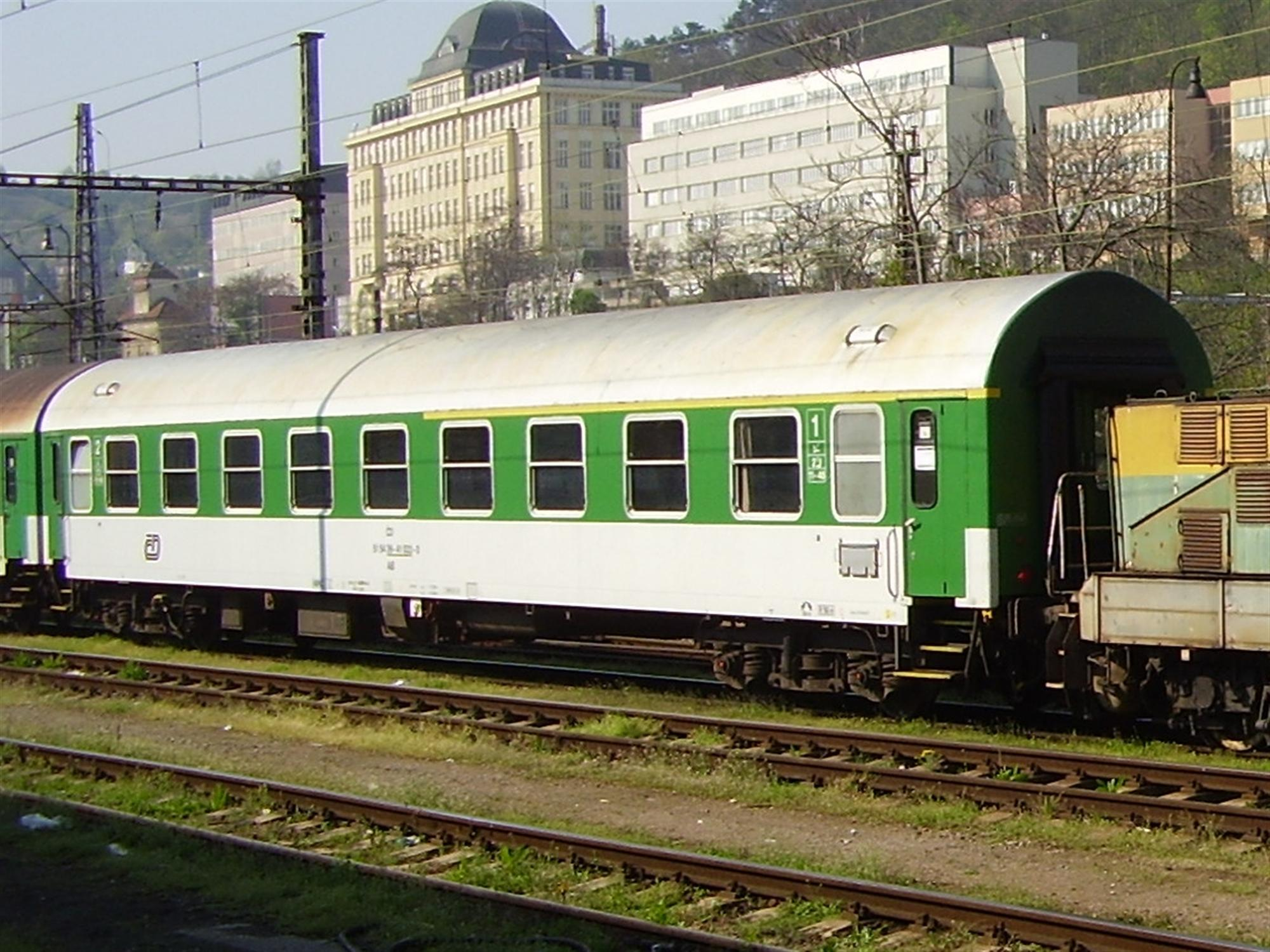 Rail car AB in train station Praha-Smíchov